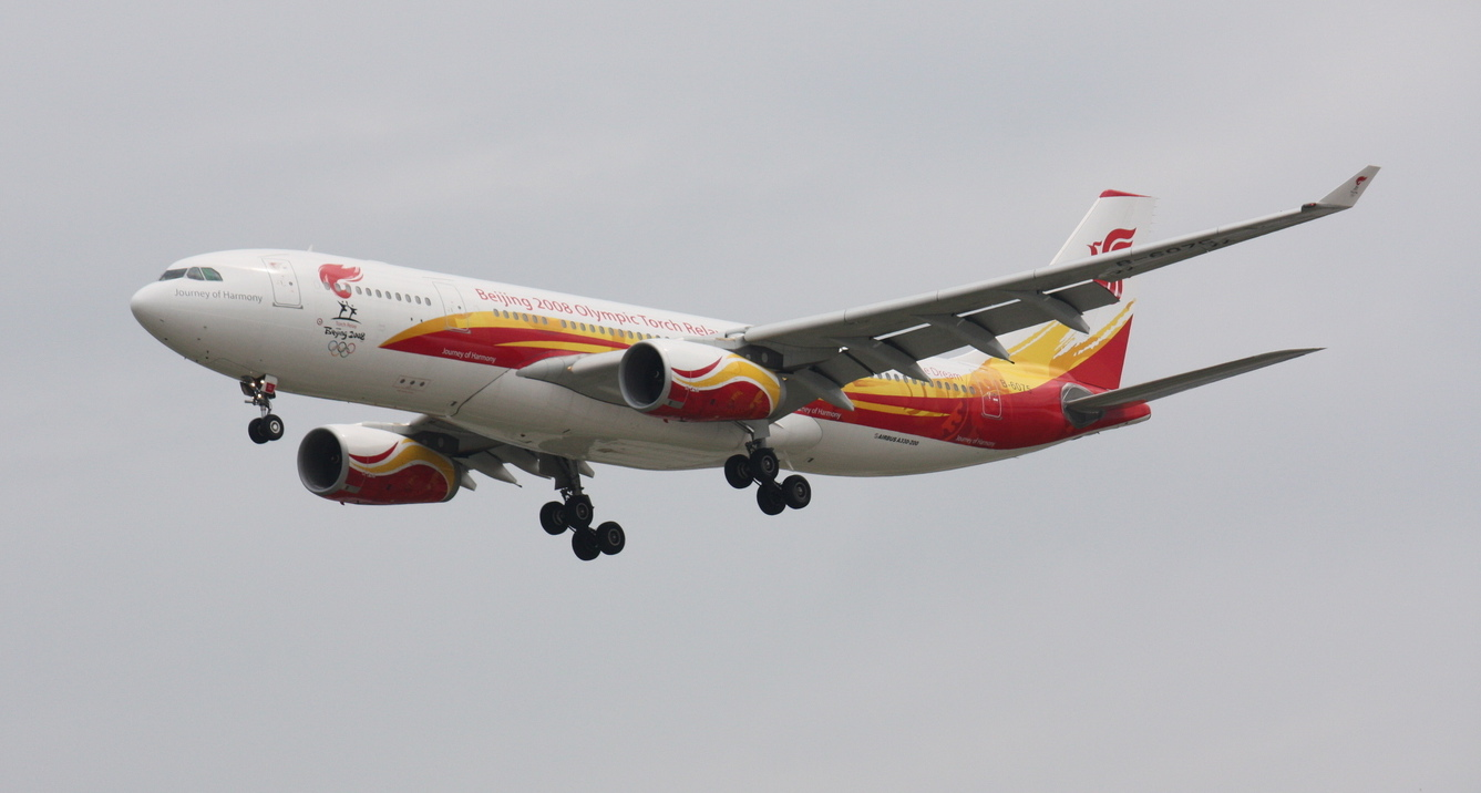 An Air China Airbus A330-243, in special Beijing 2008 Olympic Torh Relay livery, landing at Vancouver International Airport